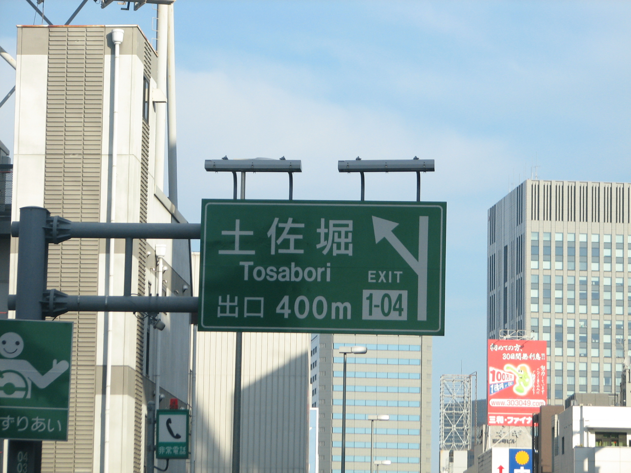 Hanshin Expressway Tosabori IC